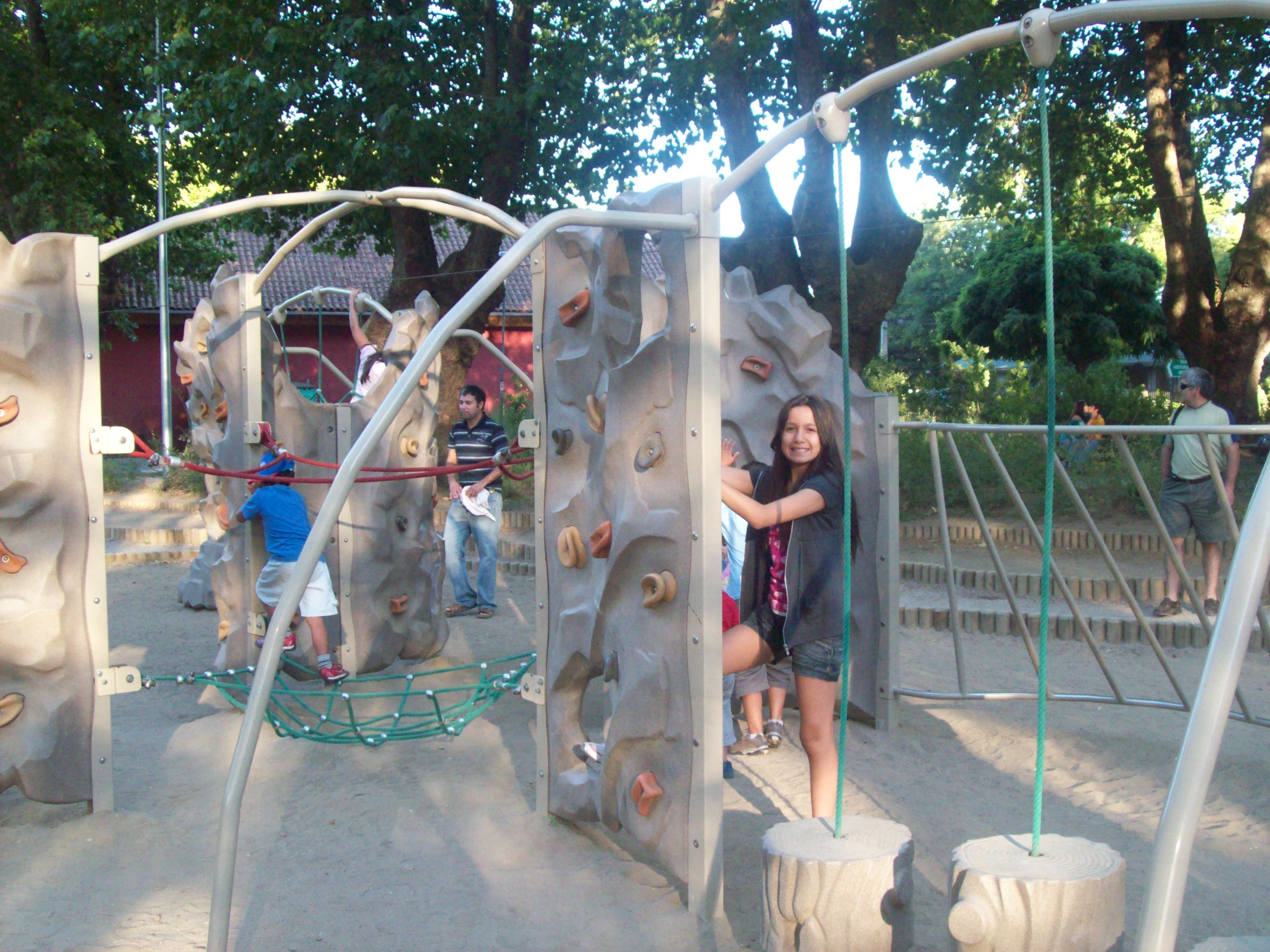 Juegos de Plaza Acevedo. Ciudad de Concepción. Chile.